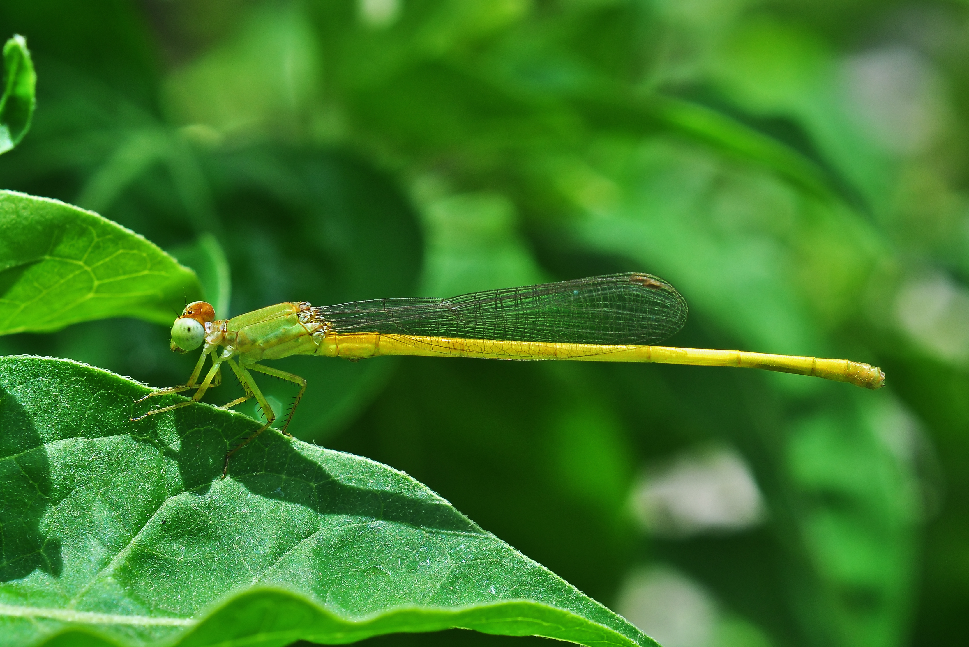 Coromandel Marsh Dart Ceriagrion coromandelianum (male) is a medium sized pale green damselfly with yellow tail. Thorax is olive green above merging to yellow on sides. Common along the banks of ponds, rivers and canals. Also found frequently far away from water bodies. Breeds in shallow water bodies with profuse growth of grass and other aquatic plants. Flies throughout the year and distributed throughout the Oriental region. Taken at Burdwan, West Bengal, India.